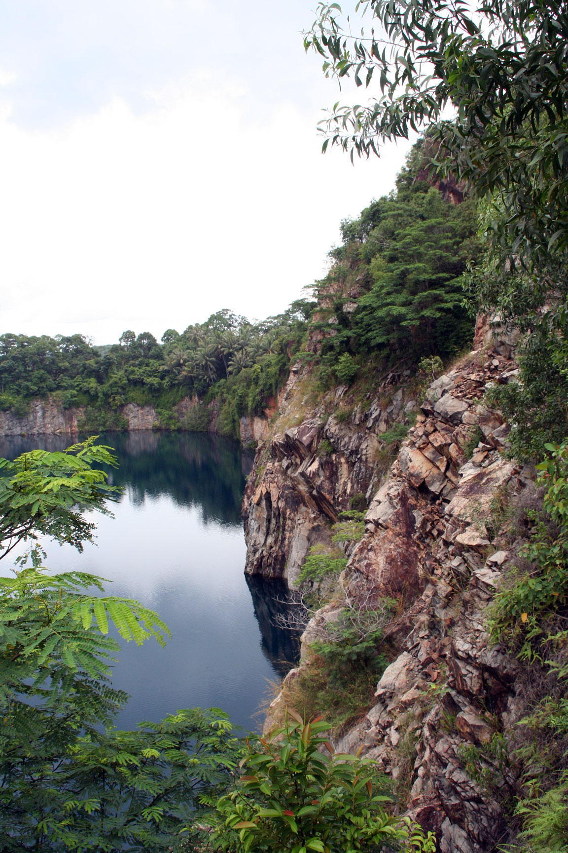 Description: View of the disused Ubin Quarry from the southeast. Source: Self-made Location: Pulau Ubin, Singapore Date: 17/12/2005 12:21 Photographer/Painter: Huaiwei